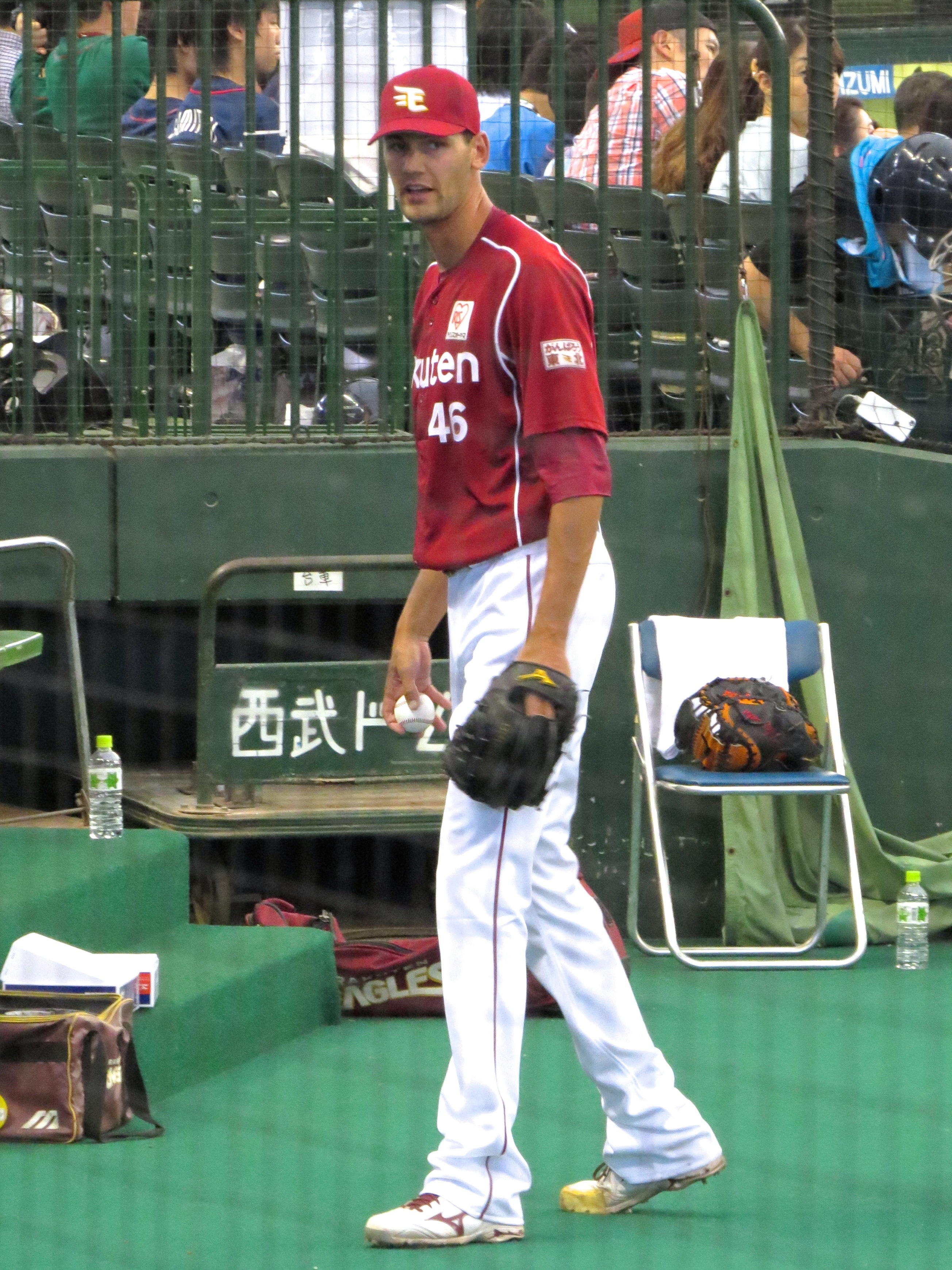 Loek van Mil, pitcher of the Tohoku Rakuten Golden Eagles, at Seibu Dome.